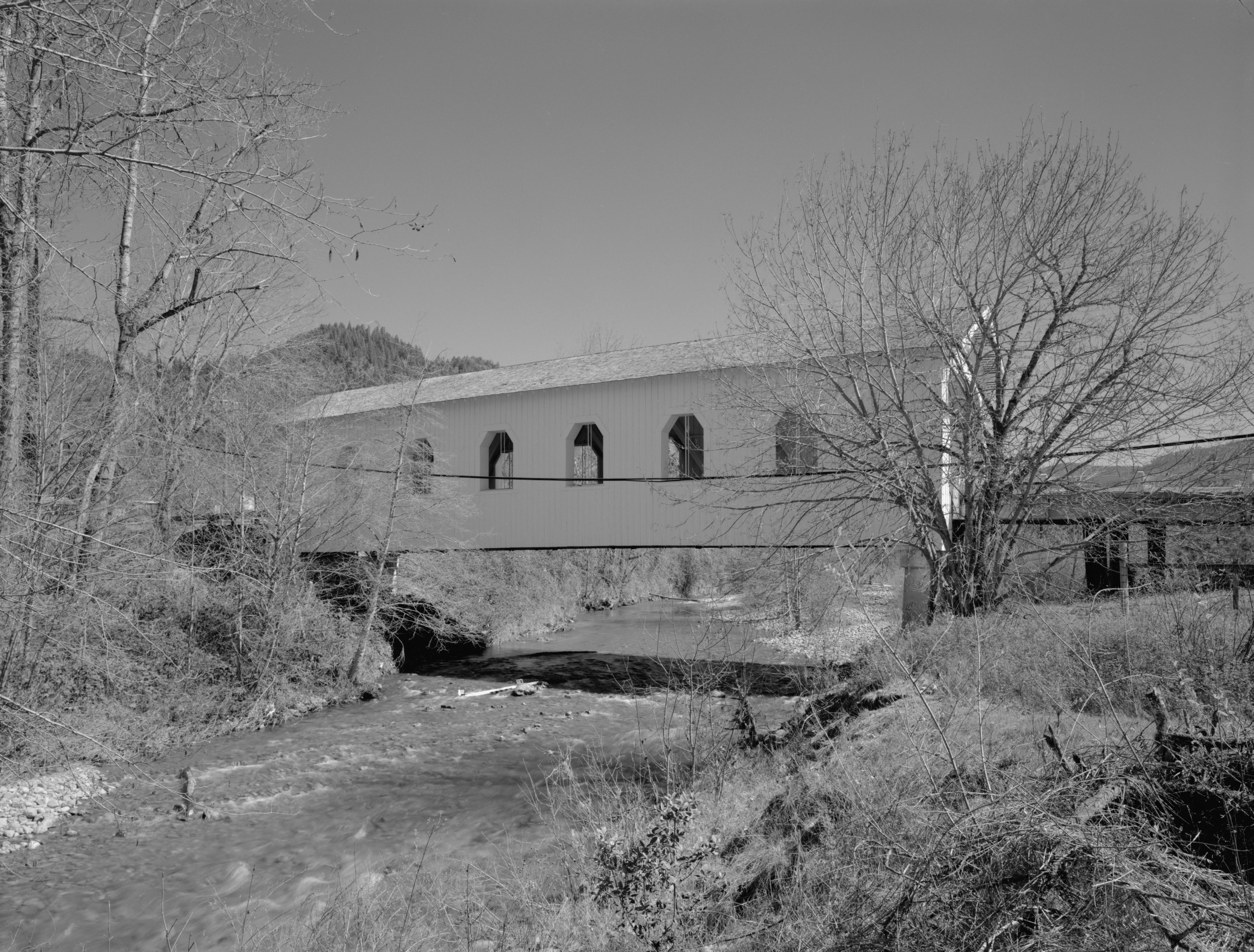 Grave Creek Bridge, Spanning Grave Creek on Sunny Valley Loop Road, Sunny Valley (Josephine County, Oregon).